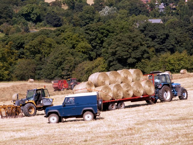 Harvesting at Silkstone Common. By the side of Silkstone Lane, the buildings in the trees are houses at silkstone Village.